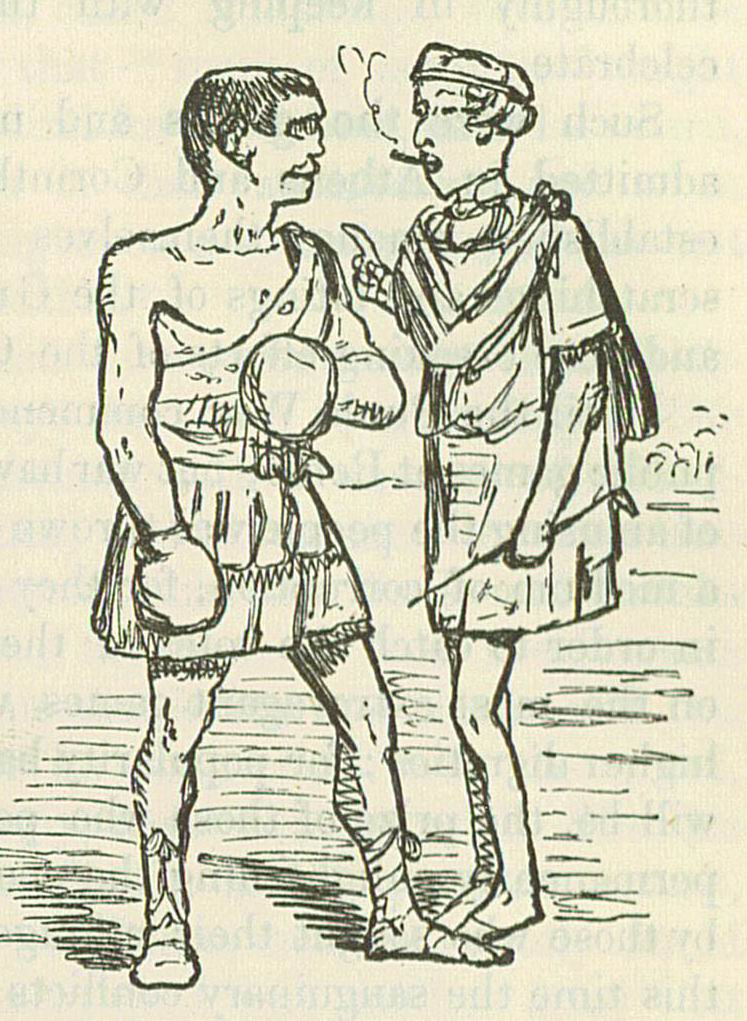 Image by John Leech, from: The Comic History of Rome by Gilbert Abbott A Beckett. Bradbury, Evans & Co, London, 1850s Early Roman Gladiator and his Patron